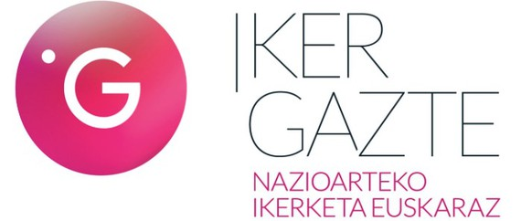 Congress IkerGazte. Young researchers working in Basque language.